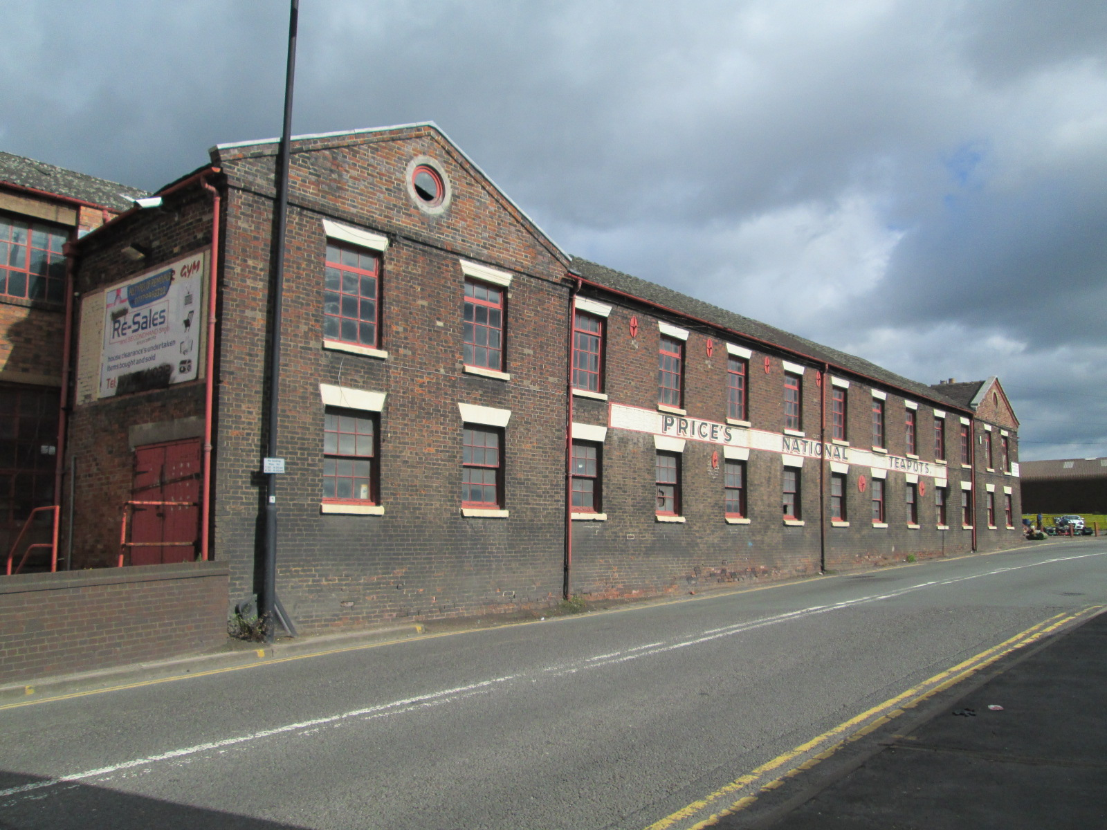 Price & Kensington Potteries, a Grade II* listed building. "Price's National Teapots" shown on the frontage.